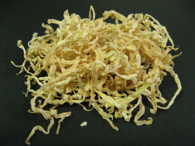 Dried strips of radish(切干大根)